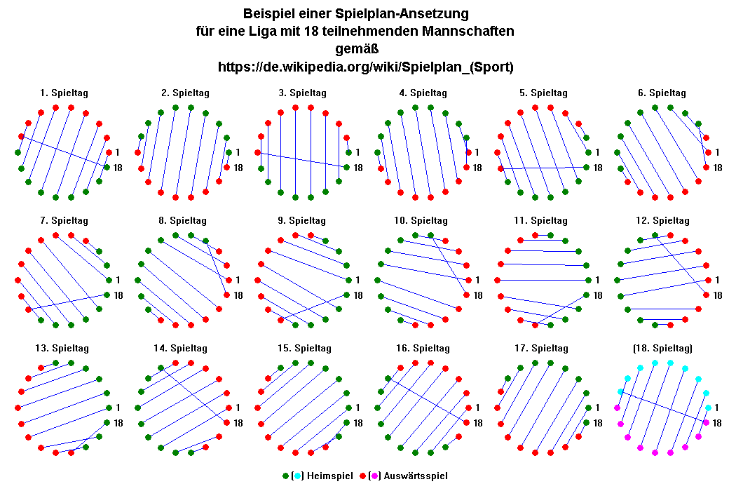 Example of a round-robin tournament schedule with 18 participating teams as used by the German soccer league 2005/06 (